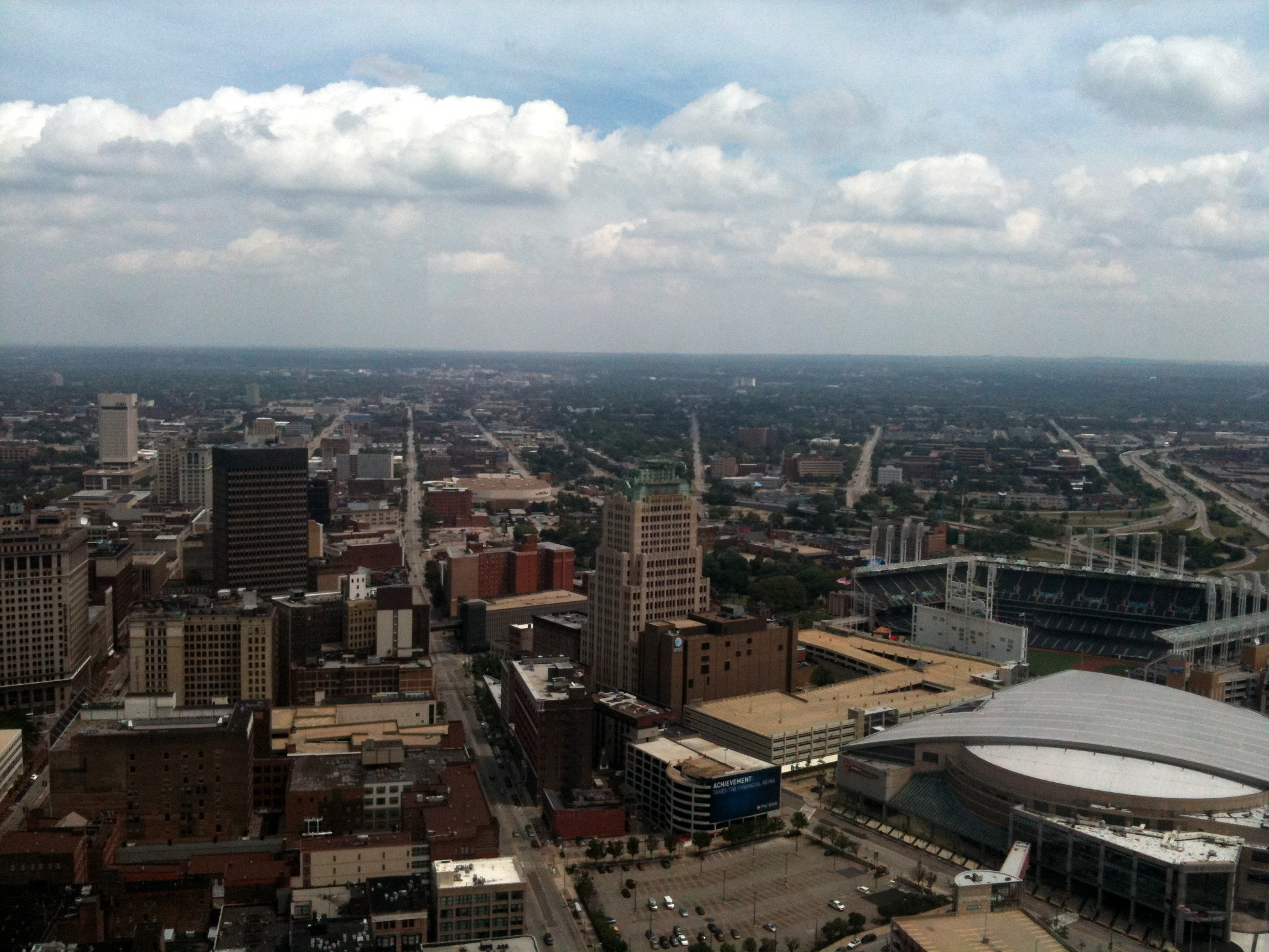 Looking down downtown Cleveland's Prospect Avenue from the Terminal Tower observation deck